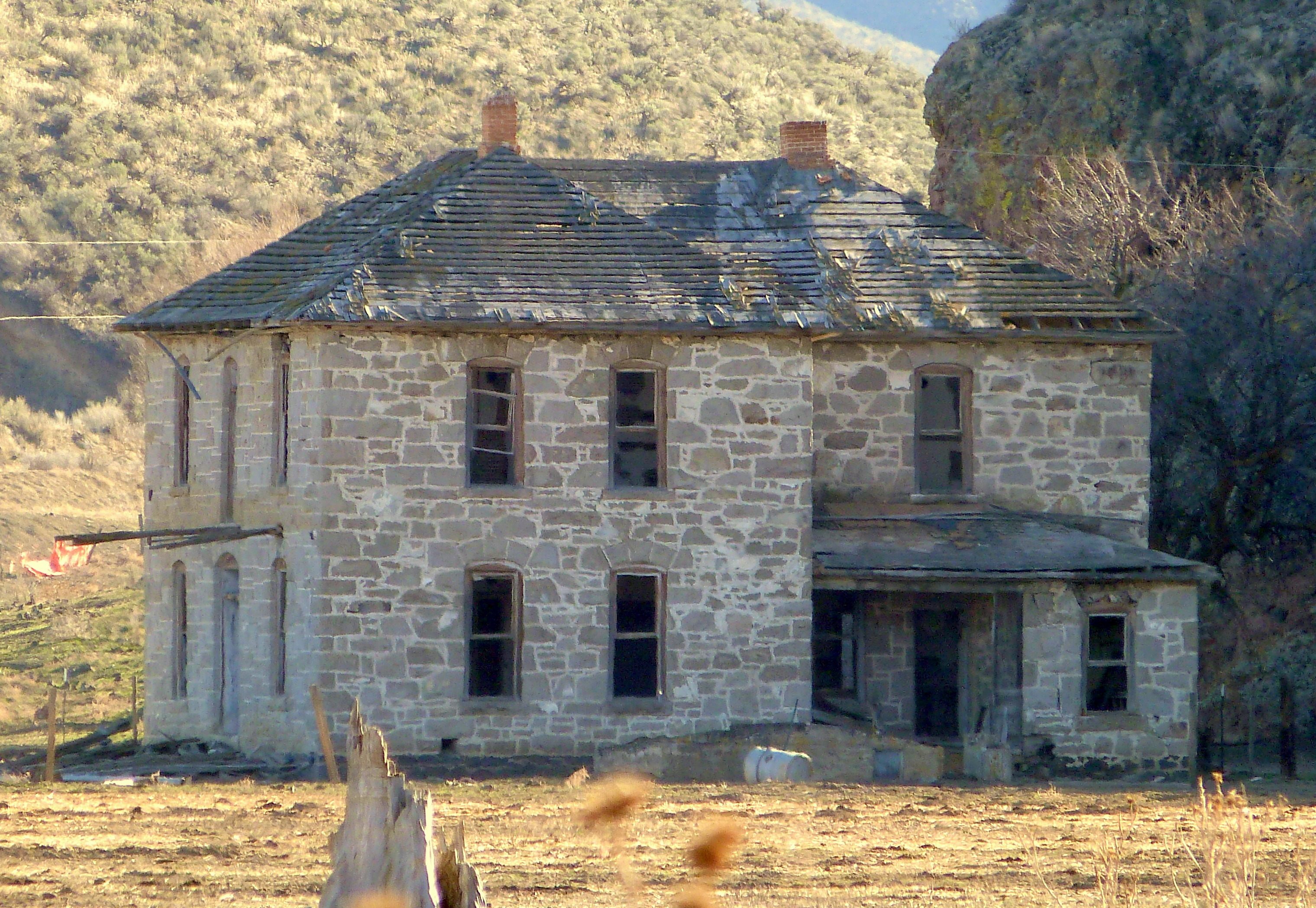 The historic Moses and Mary Hart Stone House and Ranch Complex (built 1898), located near Westfall, Oregon, United States, is listed on the US National Register of Historic Places.